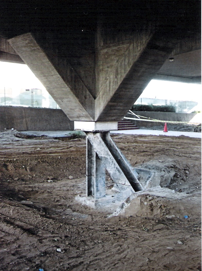 Abutment of an elevated building foundation [1] at reconstruction, Glendale, California